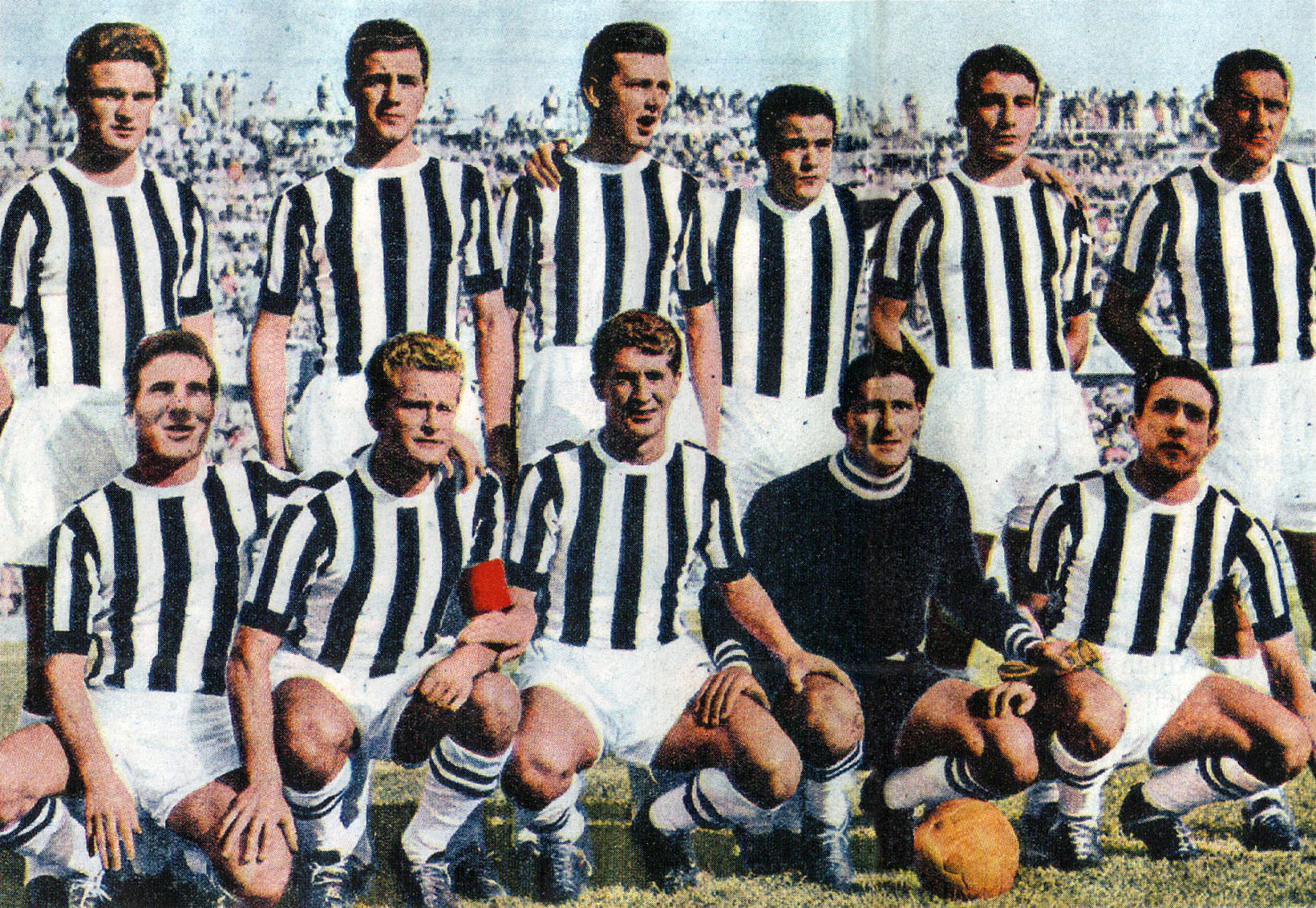 A line-up of Juventus F.C. in the 1955–56 season. From left to right, standing: B. Boldi, A. Montico, U. Colombo, J. Vairo, B. Garzena, C. Nay; crouched: K. A. Præst, G. Boniperti (captain), G. Turchi, G. Viola, G. Corradi.